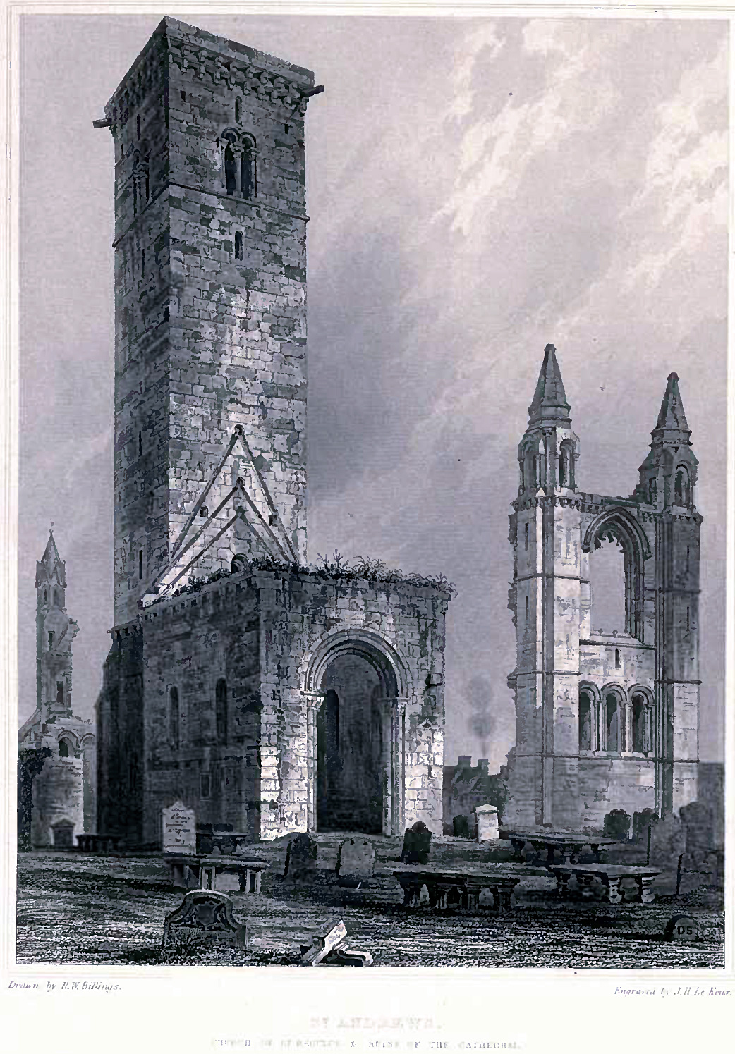 St Regulus church. Part of the Cathedral of St Andrew in St Andrews, Fife, Scotland.